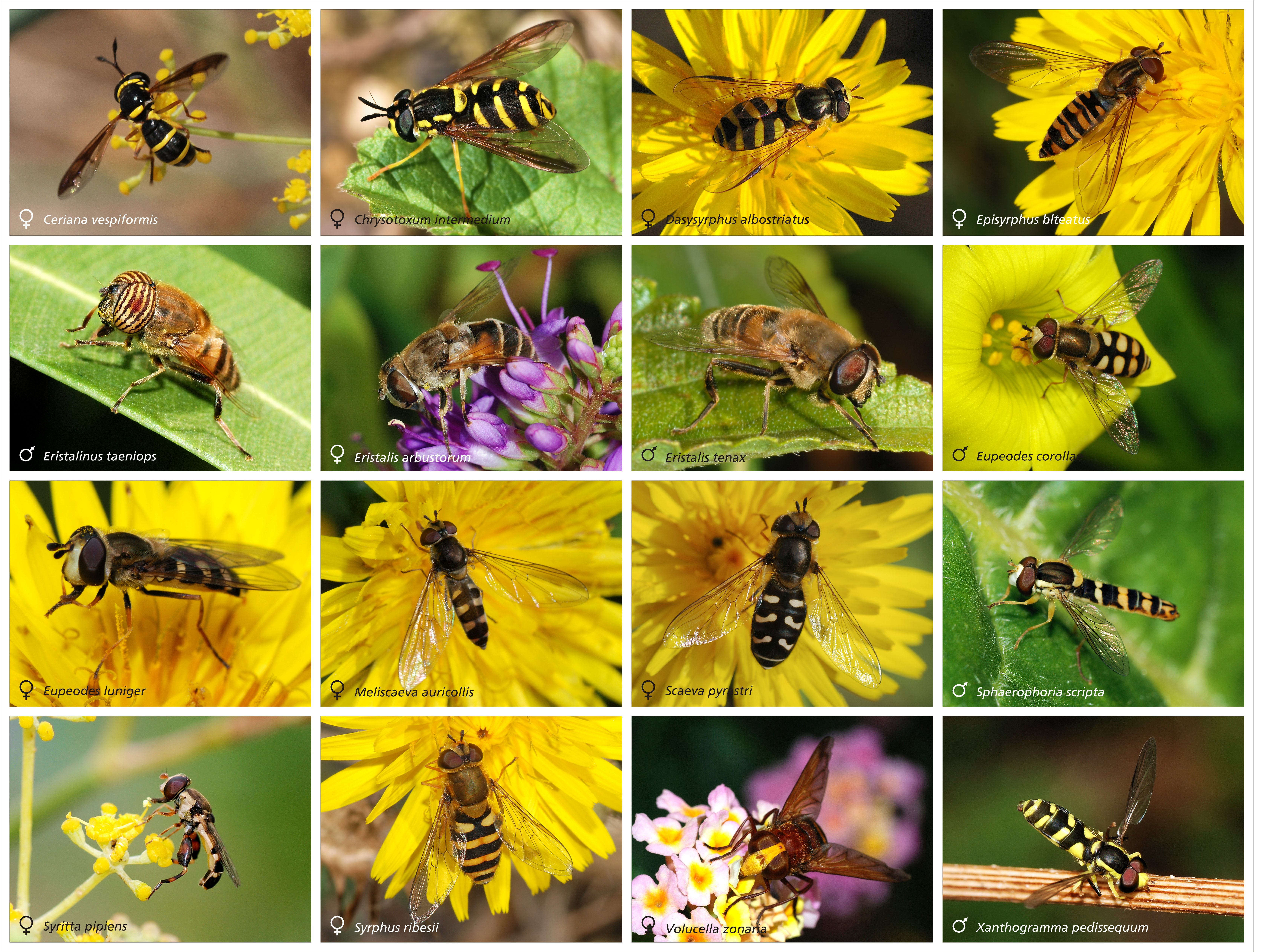 A poster of hoverflies (Syrphidae): Ceriana vespiformis (female) Chrysotoxum intermedium (female) Dsysyrphus albostriatus (female) Episyrphus balteatus (female) Eristalinus taeniops (male) Eristalis arbustorum (female) Eristalis tenax (male) Eupeodes corollae (male) Eupeodes luniger (female) Meliscaeva auricollis (female) Scaeva pyrastri (female) Sphaerophoria scripta (male) Syritta pipiens (female) Syrphus ribesii (female) Volucella zonaria (female) Xanthogramma pedissequum (male)